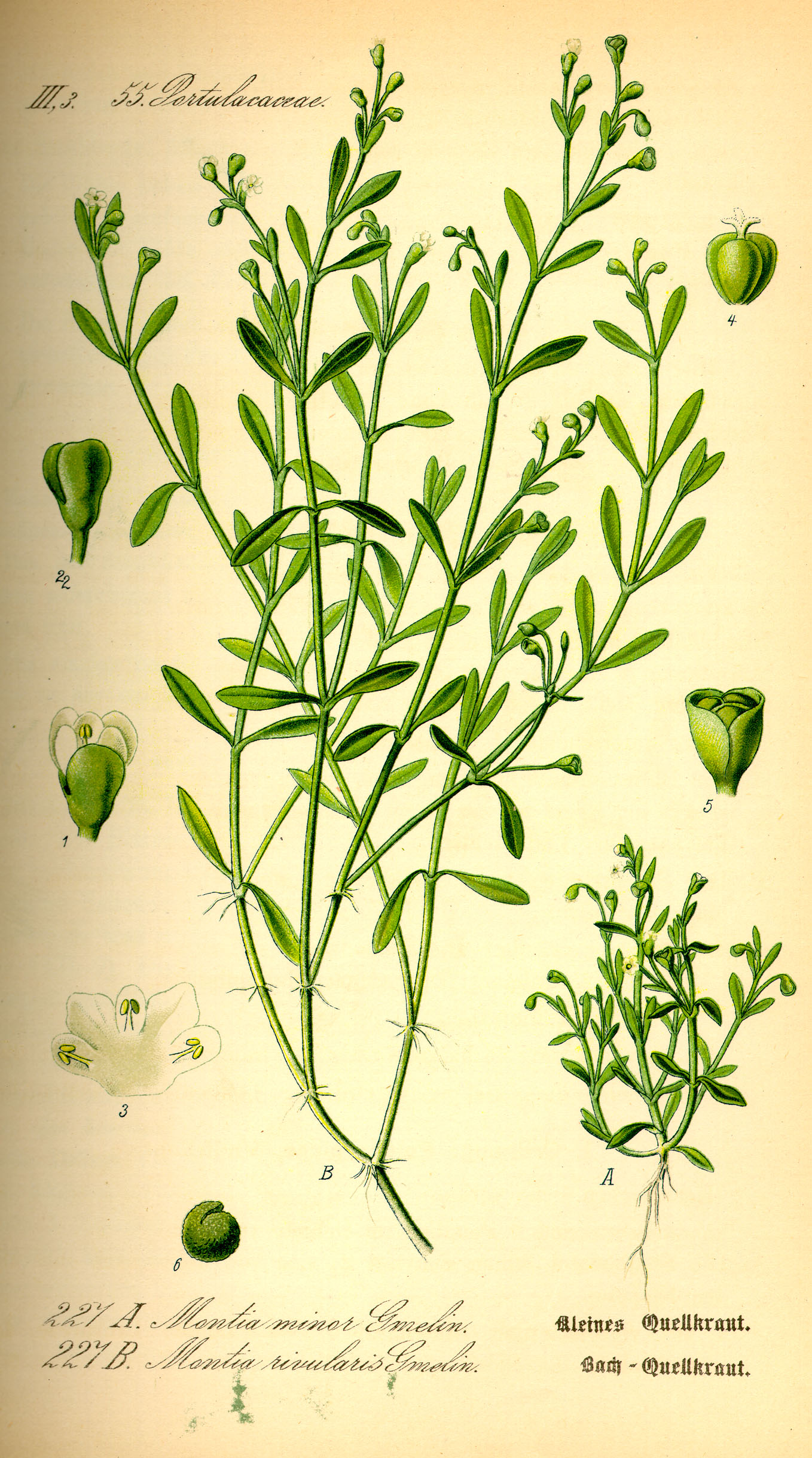 Both depicted taxa have now the name Montia fontana L., see IPNI or VAST. Comment from Ayacop 17:16, 29 September 2006 (UTC) A. Montia fontana subsp. chondrosperma (Fenzl) Walters, syn. Montia minor C.C.Gmel. B. Montia fontana subsp. fontana, syn. Montia rivularis C.C.Gmel. Family Montiaceae